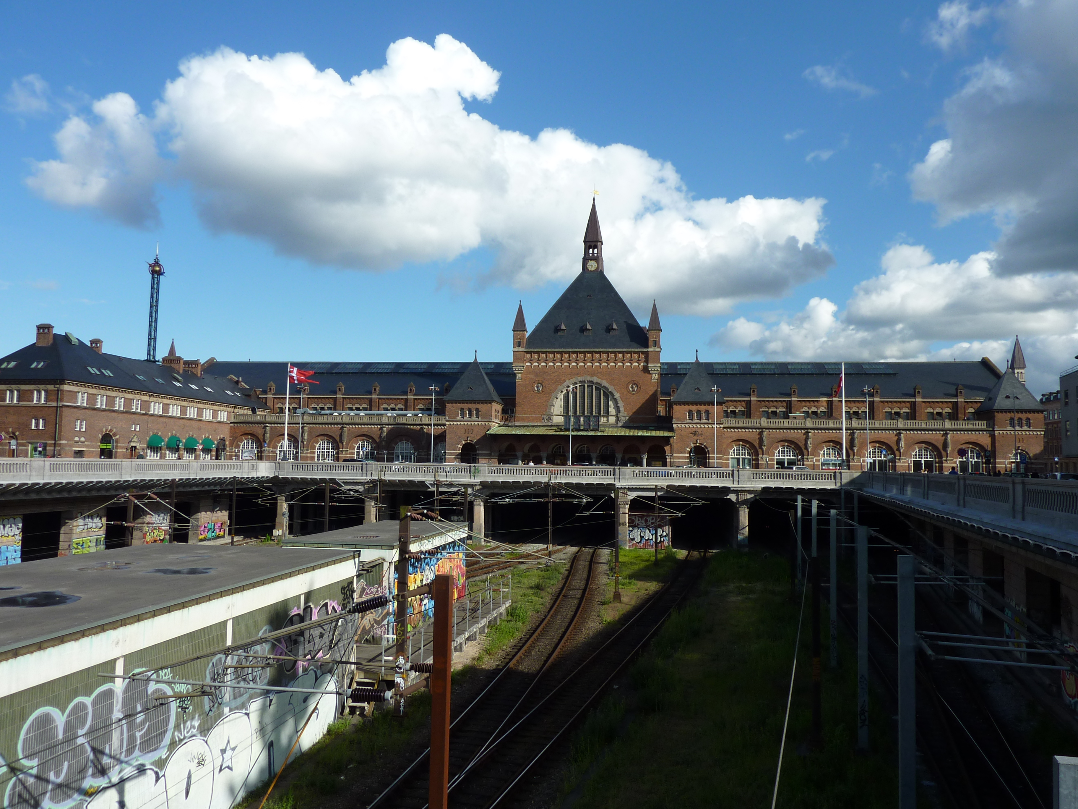 Main railway station Copenhagen in Denmark, from Vesterbrogade